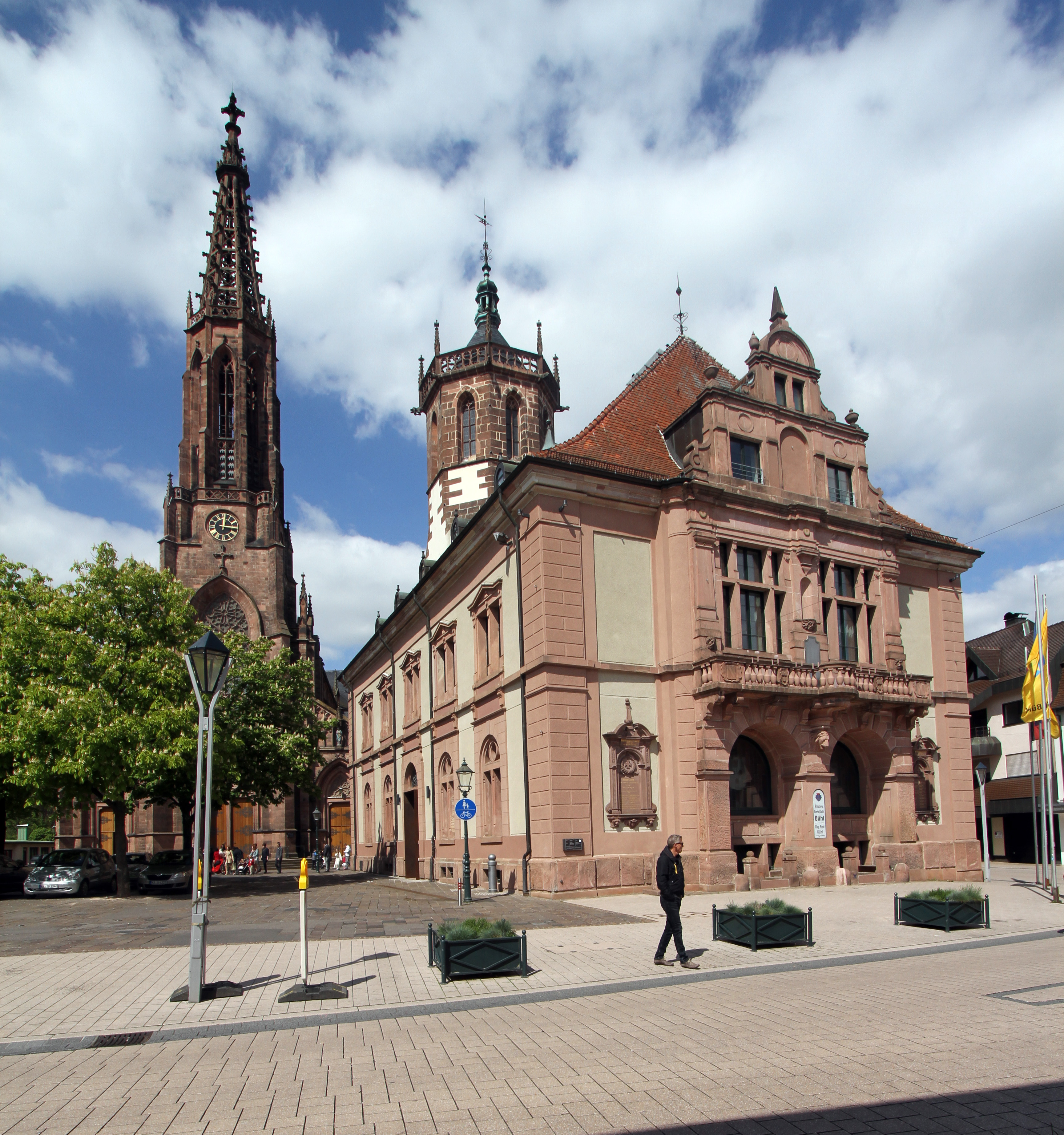 Church of St. Peter und Paul in Bühl.